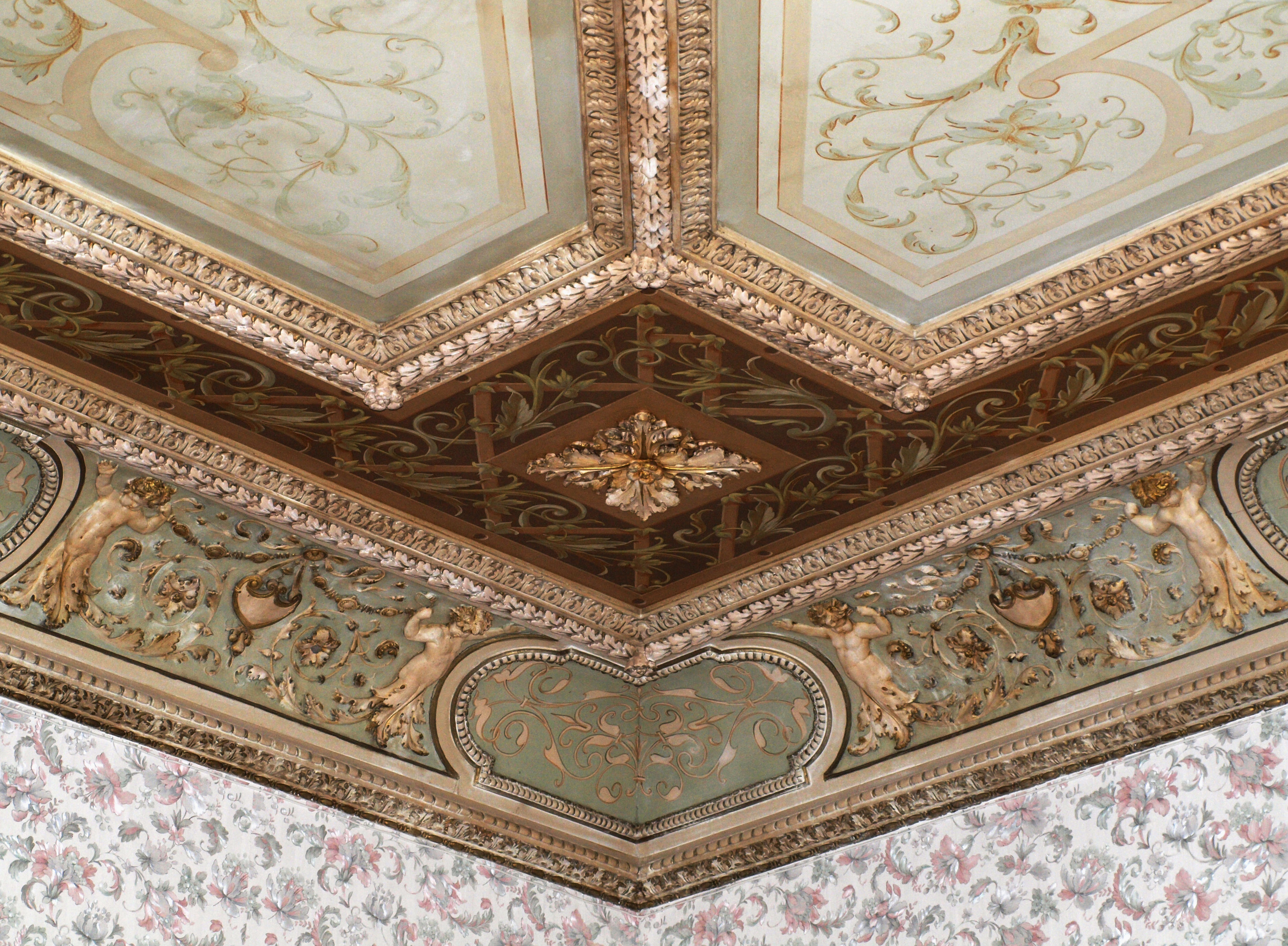 Corner of a painted stucco ceiling in the building of the Estonian Literary Museum in Tartu.